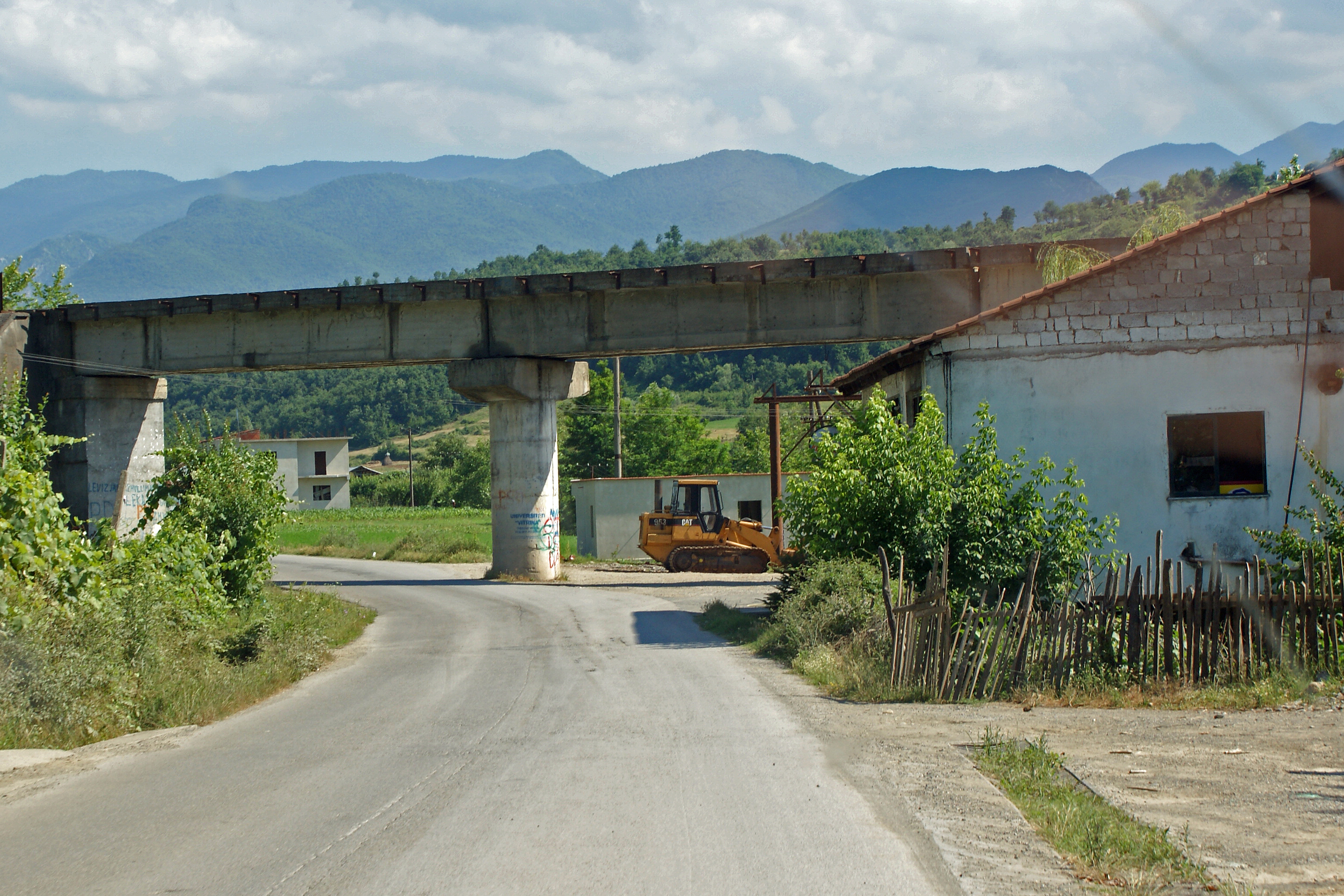 Railway bridge over SH6 close to Klos, Albania